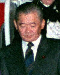 Takeshita Noboru